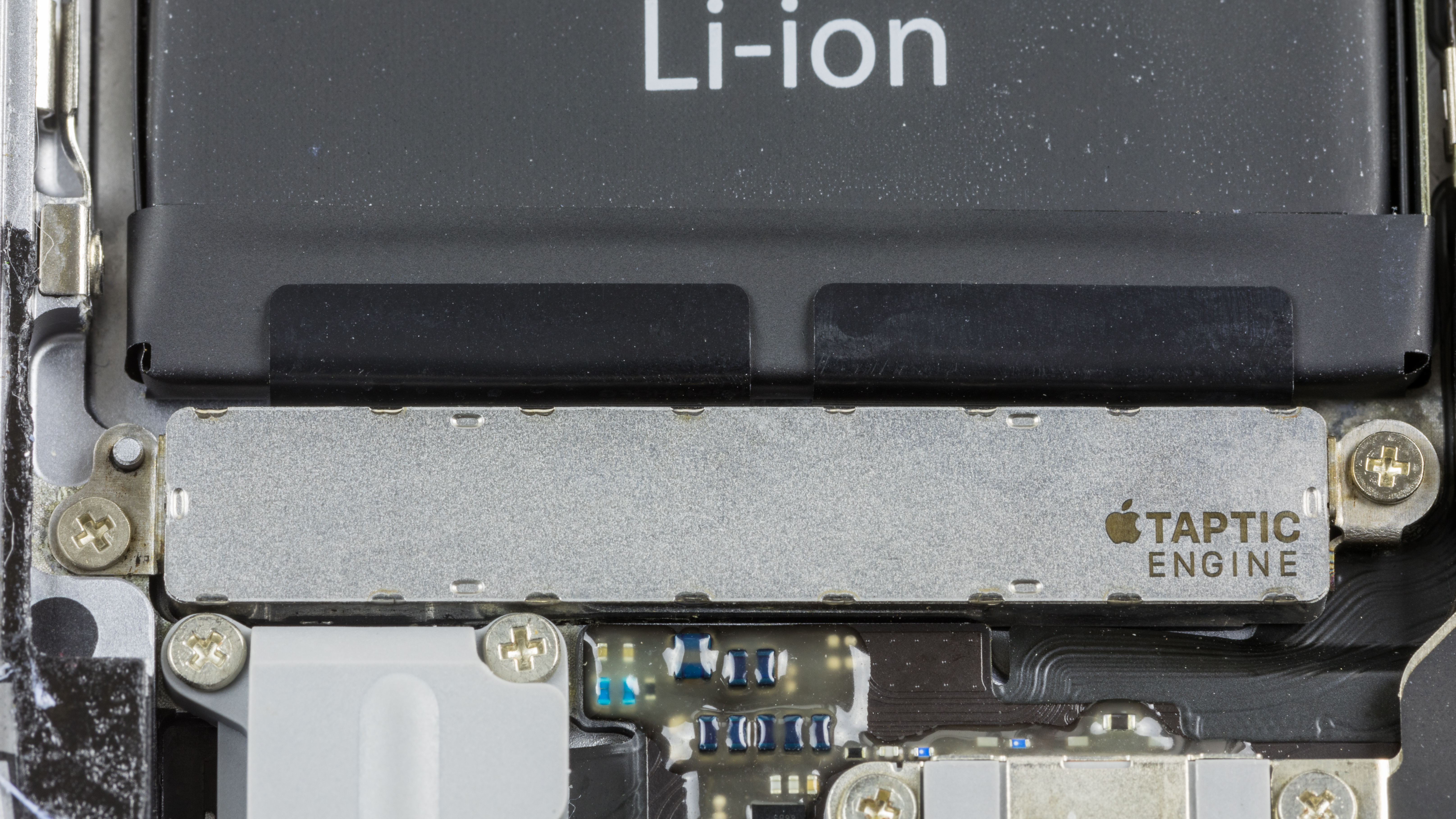 IPhone 6s - Taptic Engine in situ